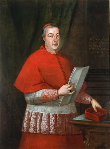 D. João Cosme da Cunha (1715-1783), portuguese Cardinal of the Catholic Church.